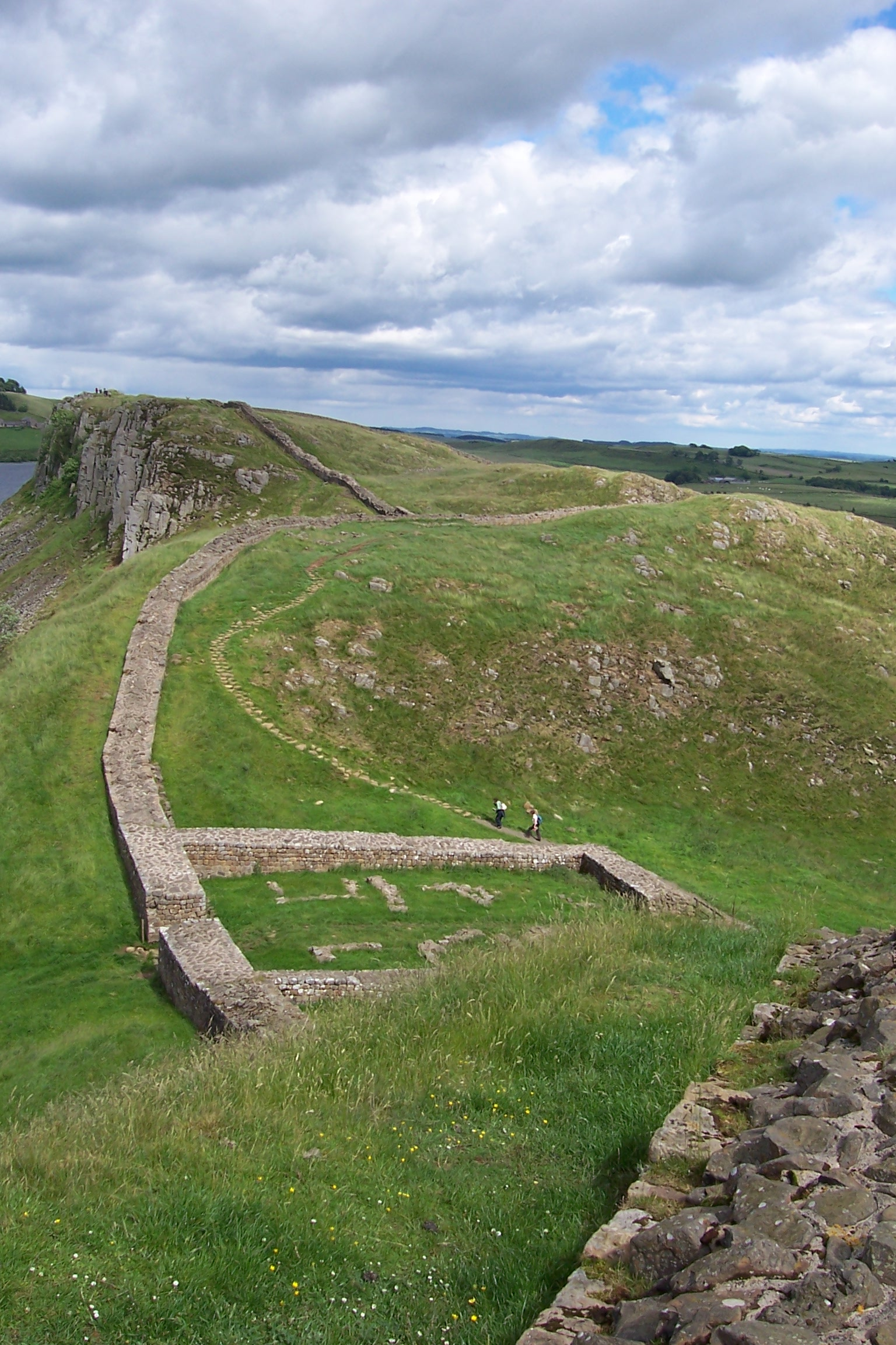 Milecastle 39 on Hadrian's Wall, near Steel Rigg, looking east from a ridge along the Hadrian's Wall Path.